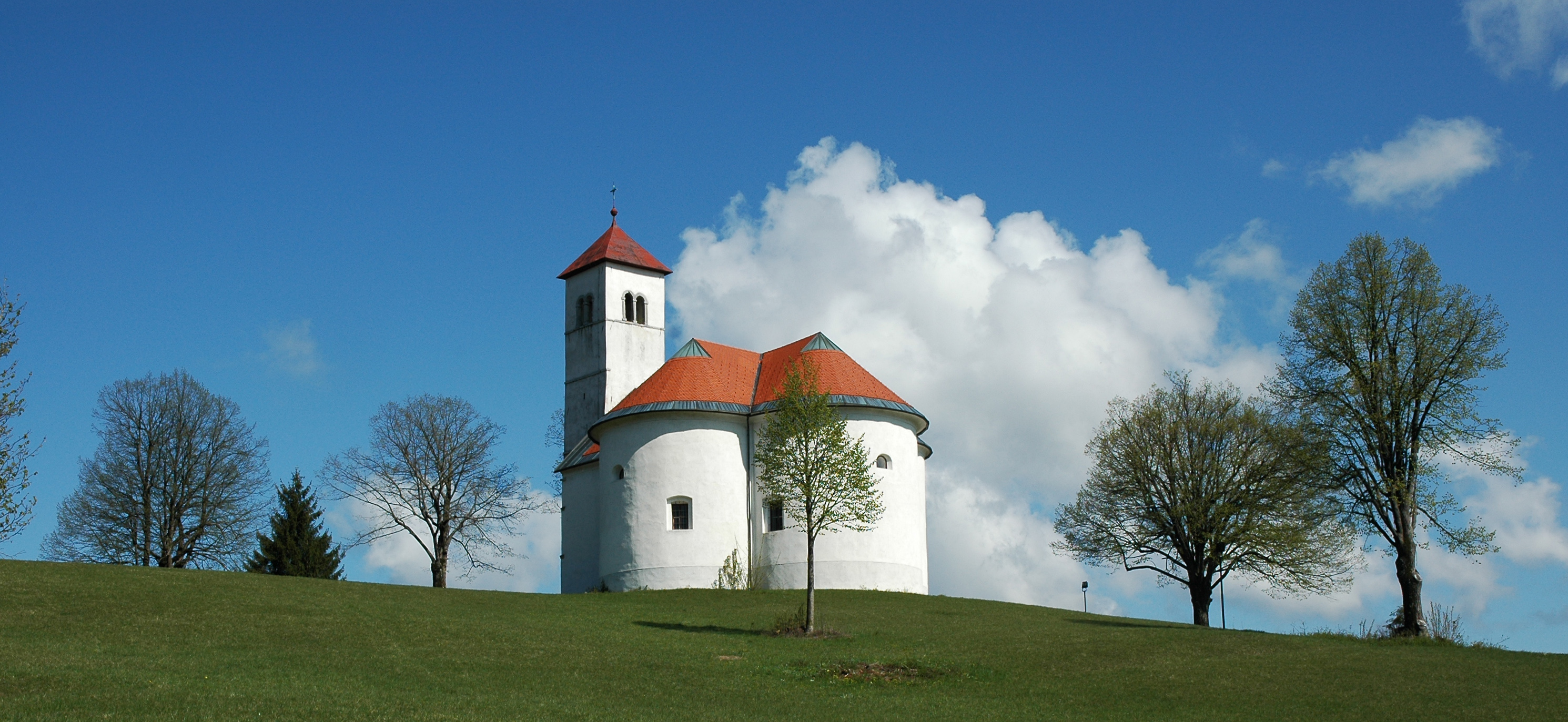 St. Volbenk church in Zelše, Slovenia